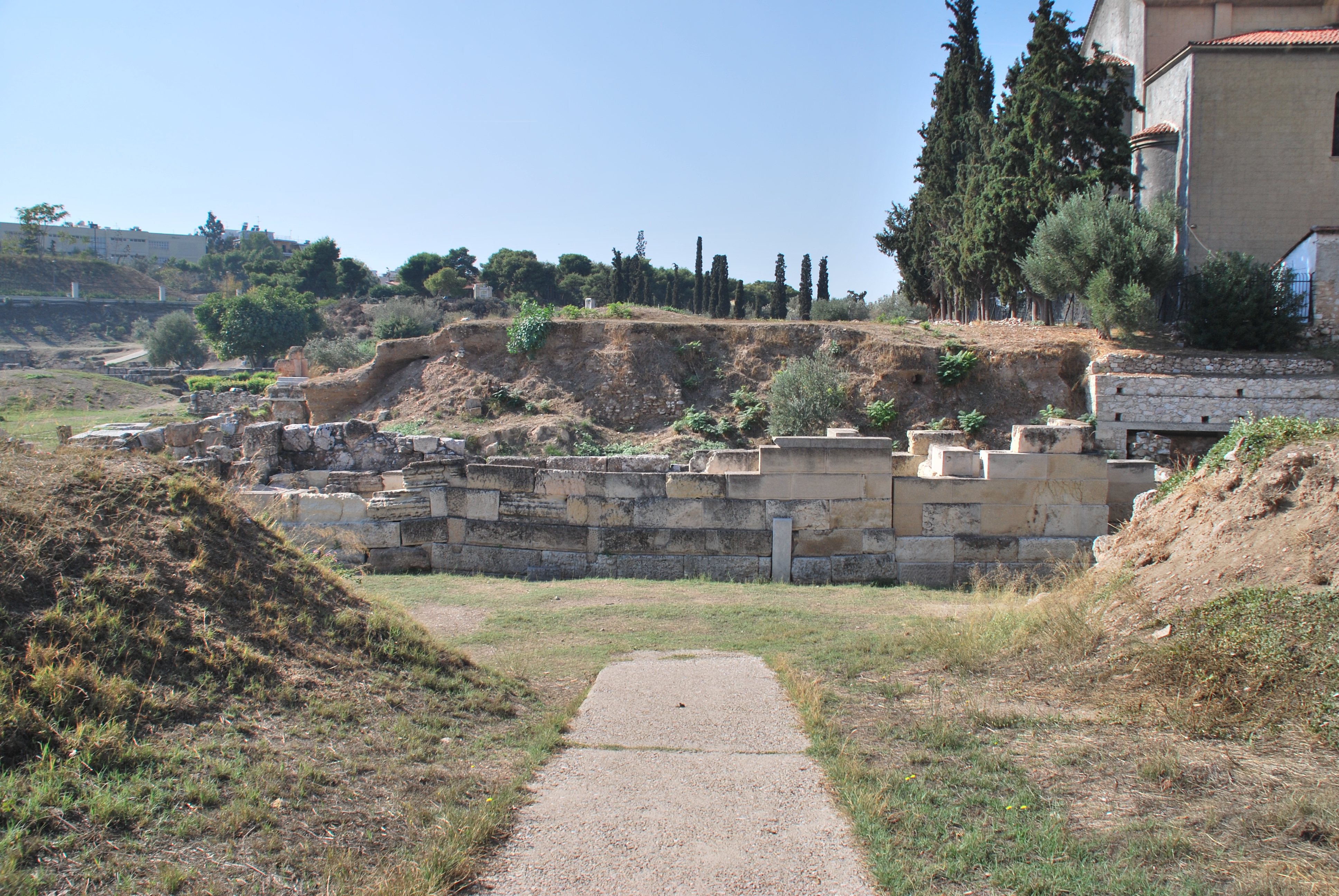 Kerameikos, der größte und wichtigste der Friedhöfe des antiken Athens.